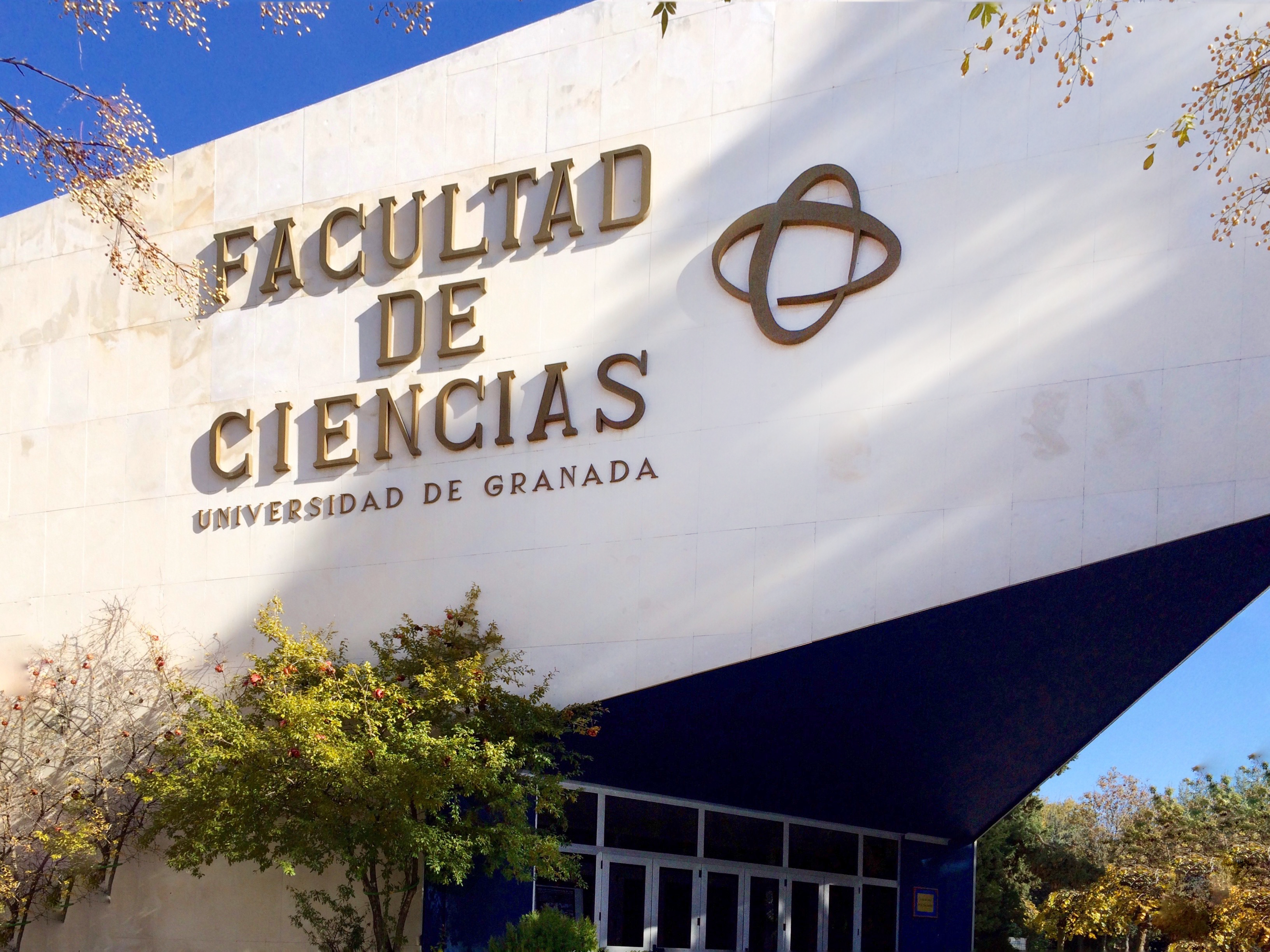 Faculty of Sciences of the University of Granada (Spain)